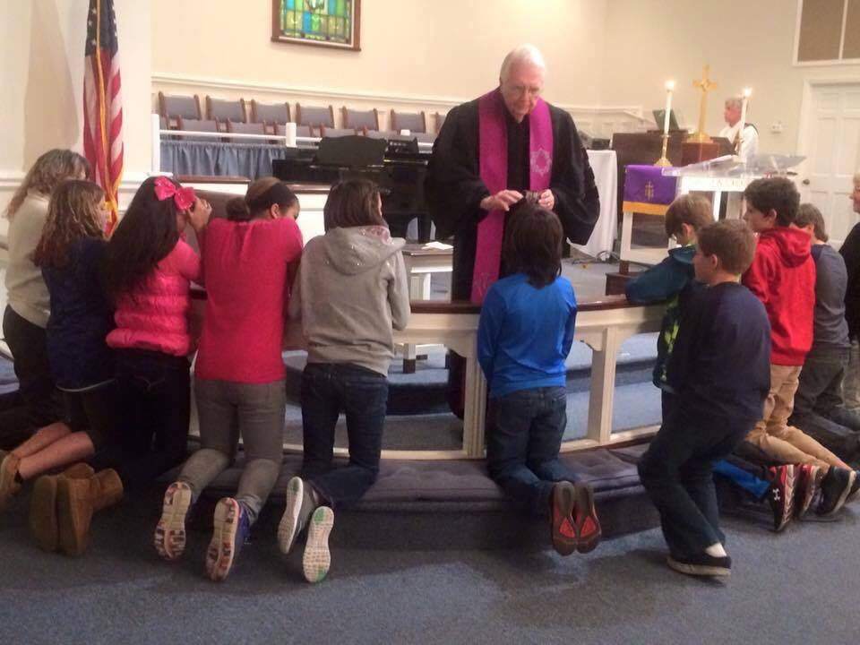 The image depicts the Rev. Thomas Farmer distributing ashes to the 2016 confirmands of Keystone United Methodist Church on Ash Wednesday. This picture was clicked on February 10, 2016. Other information The image is available online at